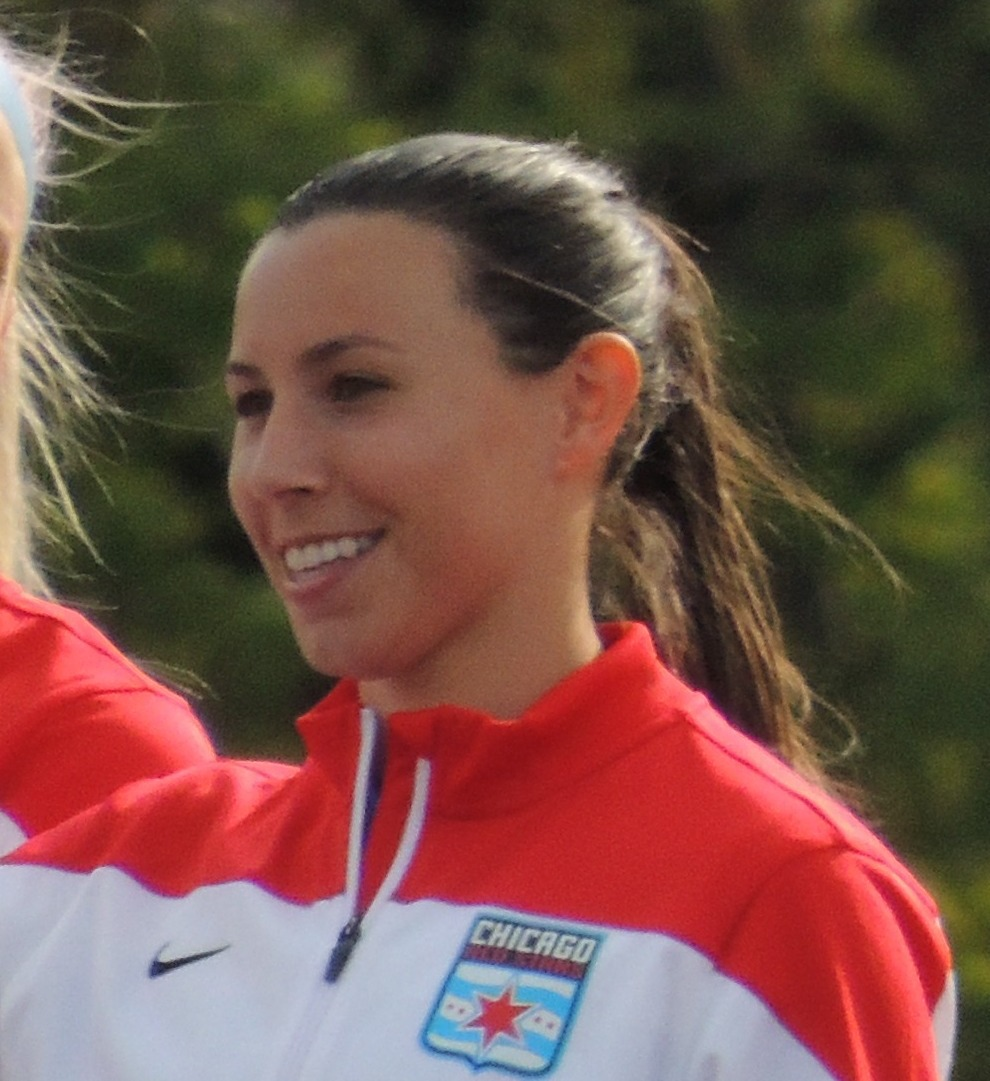 2015-05-02 Vanessa DiBernardo introduced in Sky Blue at Red Stars